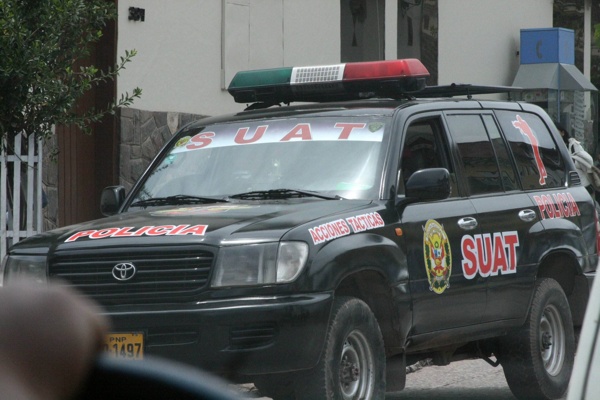 Peru Trip Last Day in Cusco, visiting the Cathedral and a jewelry factory